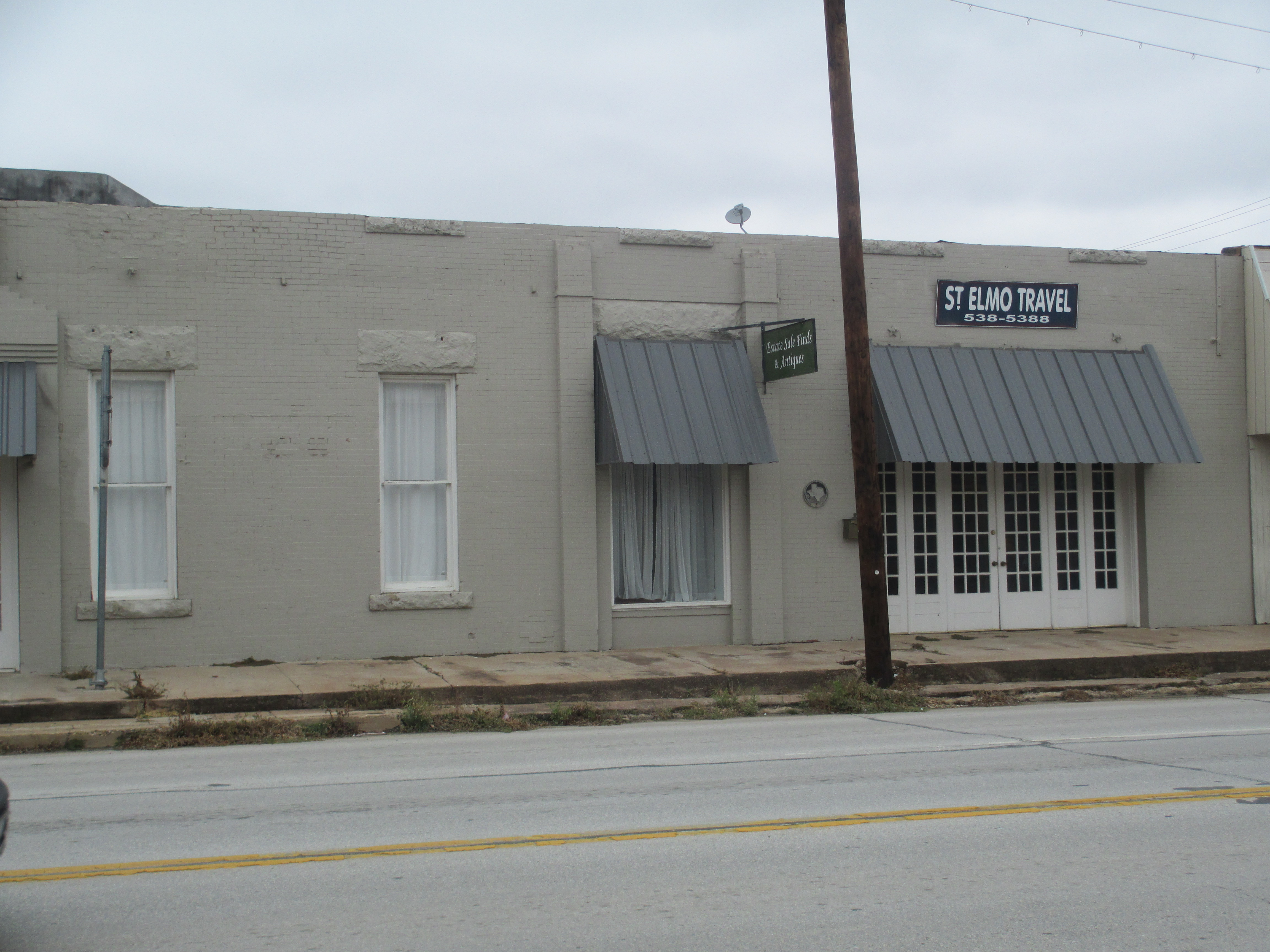 I took photo of building that was once the historic St. Elmo Hotel in Henrietta, TX, with Canon camera, April 4, 2013. Billy Hathorn (talk) 02:56, 11 April 2013 (UTC)